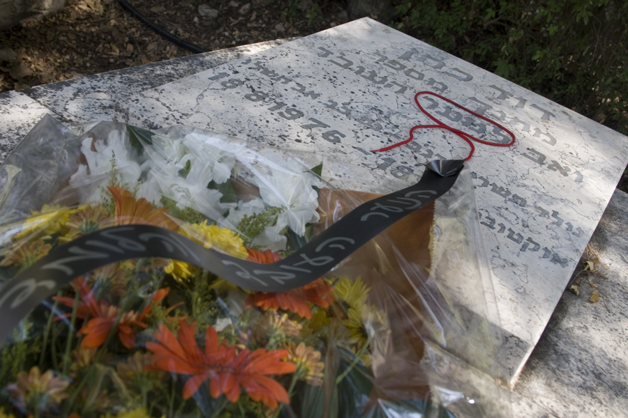 grave of David Cohen, father of Hanoar Haoved VeHaLomed (The Federation of Working and Studying Youth) in Alonim (oaks) cemetery.